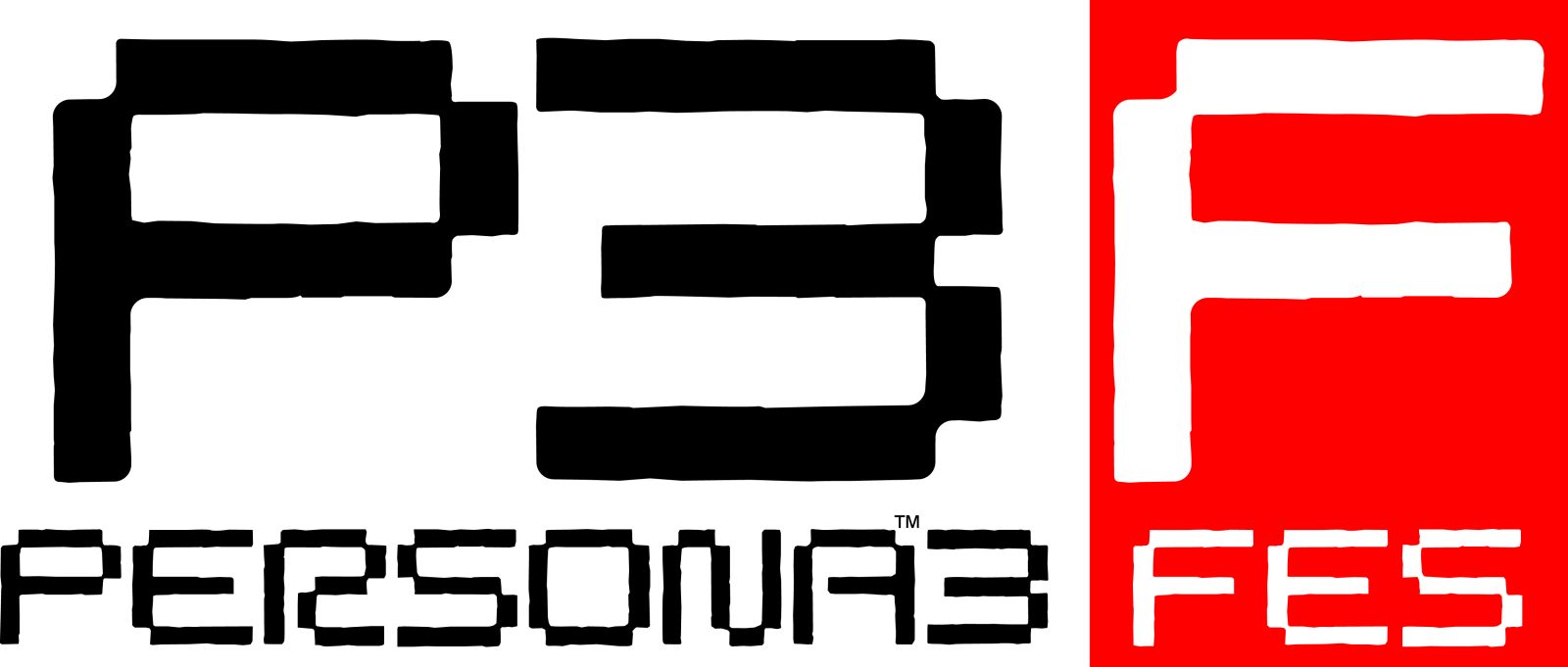 Logo used for Atlus's Shin Megami Tensei: Persona 3 video game (2007).